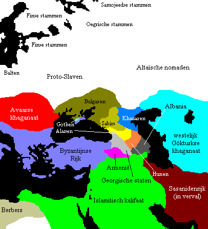 The Pontic steppe region, c. 650 AD. (Dutch translation)